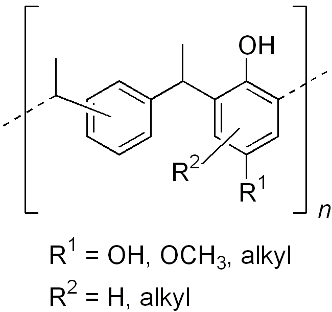 chemical structure of anoxomer